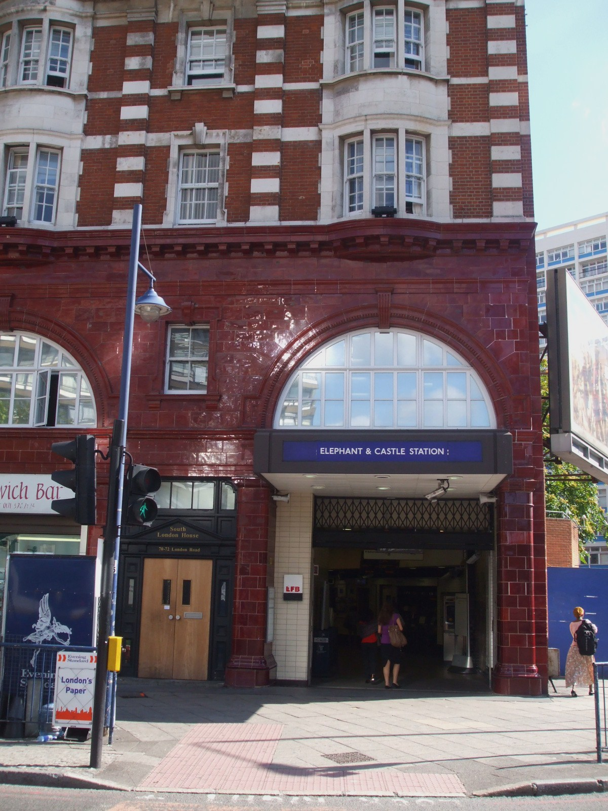 Elephant & Castle tube station northern entrance, originally built for the Bakerloo Railway, now Bakerloo line